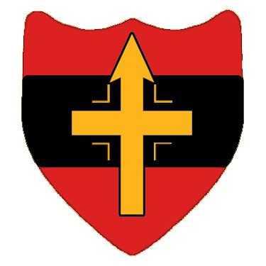 The shield(emblem) of the Northern Command of the Indian Army